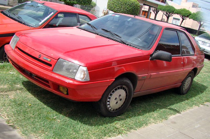 Argentinian-built Renault Fuego GTA